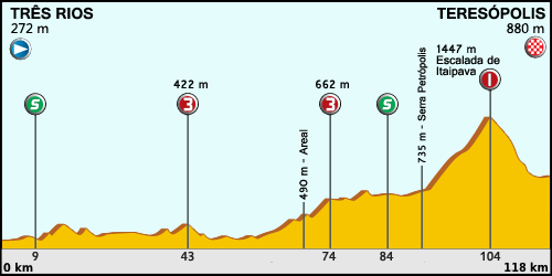 Profile of the 3rd stage of the 2012 Tour do Rio